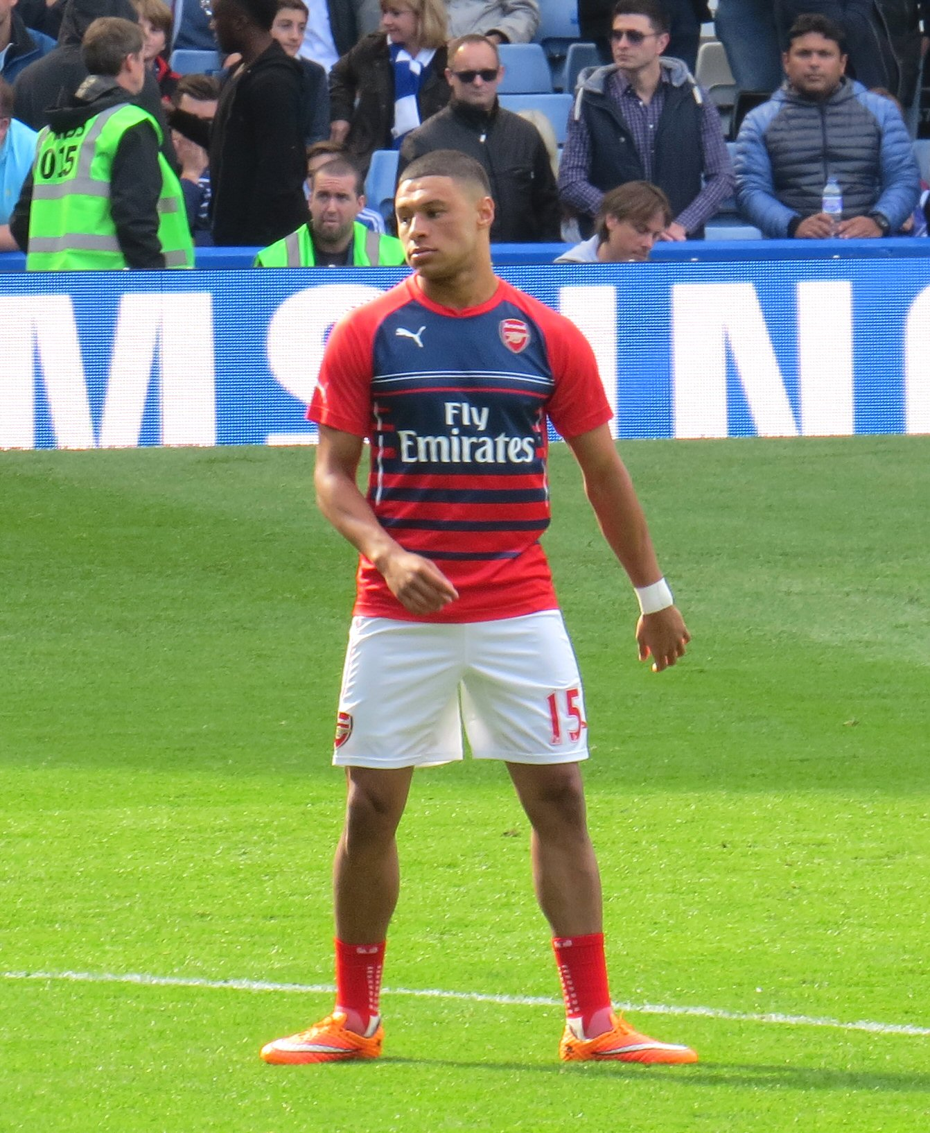 Alex Oxlade-Chamberlain vs Chelsea at Stamford Bridge Oct 2014